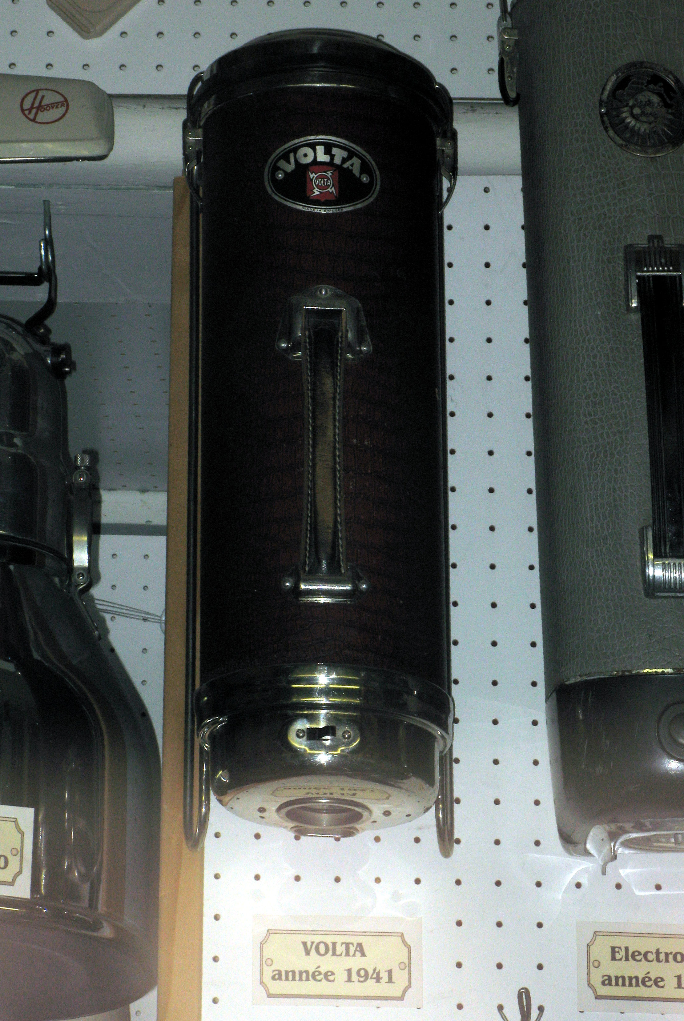 Vintage vacuum cleaner.